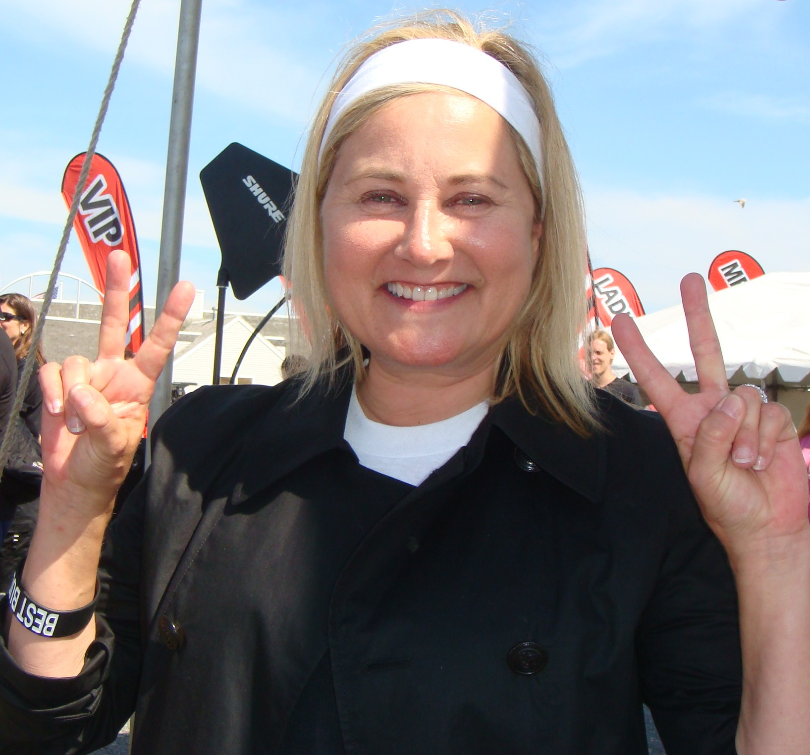 Maureen McCormick poses for the camera at the 2009 "Buddy Ride" in Hyannis, Massachusetts on May 30, 2009.